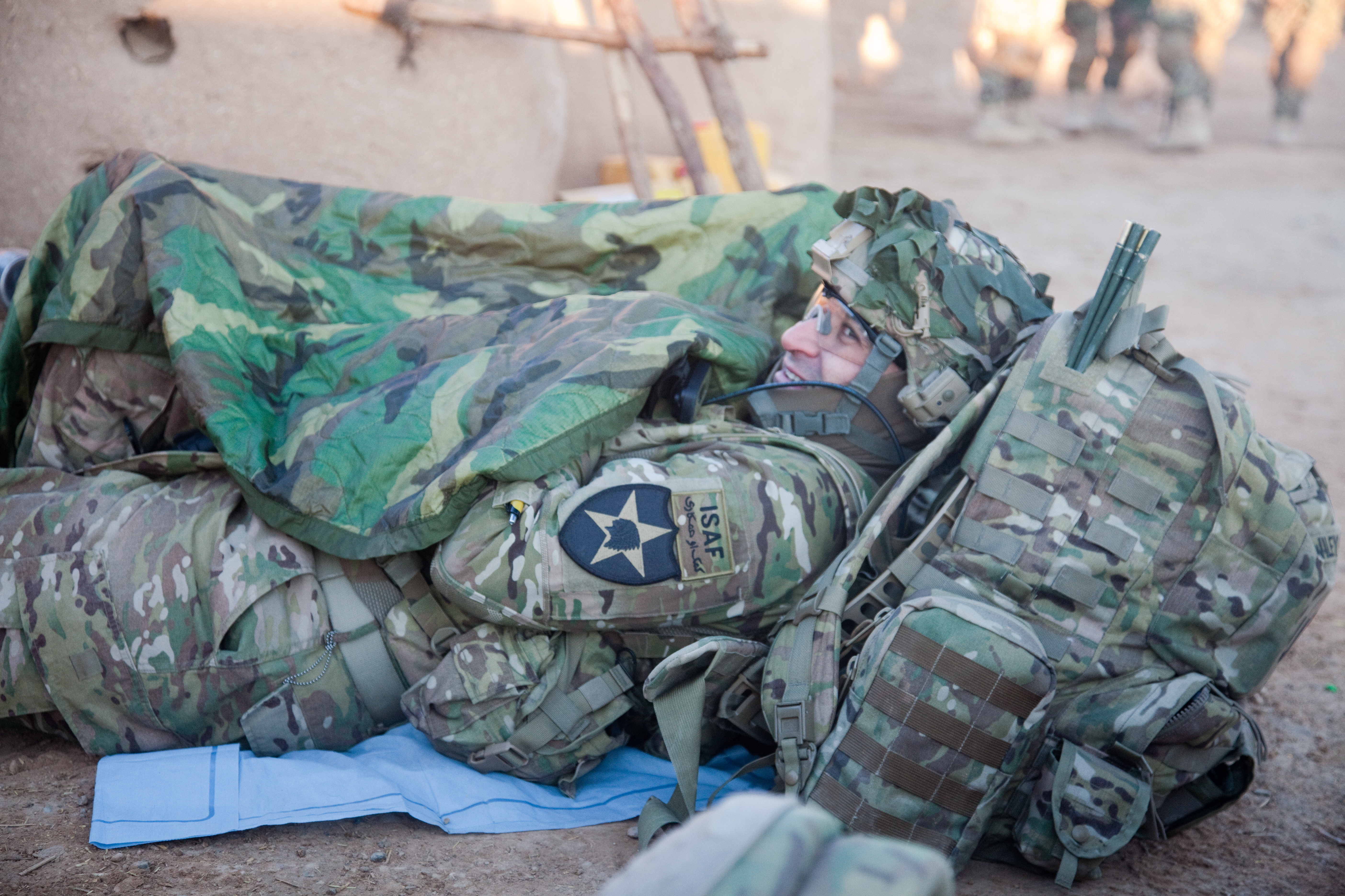 U.S. Army Capt. Kevin Wiley from 5th Battalion, 20th Infantry Regiment, covers himself with a poncho liner during a break during Operation Regular Flint at Shele Kalay, Kandahar province, Afghanistan, Jan. 16, 2012. Soldiers from 5-20th were clearing compounds in search of Taliban insurgents and materials being used to build improvised explosive devices.